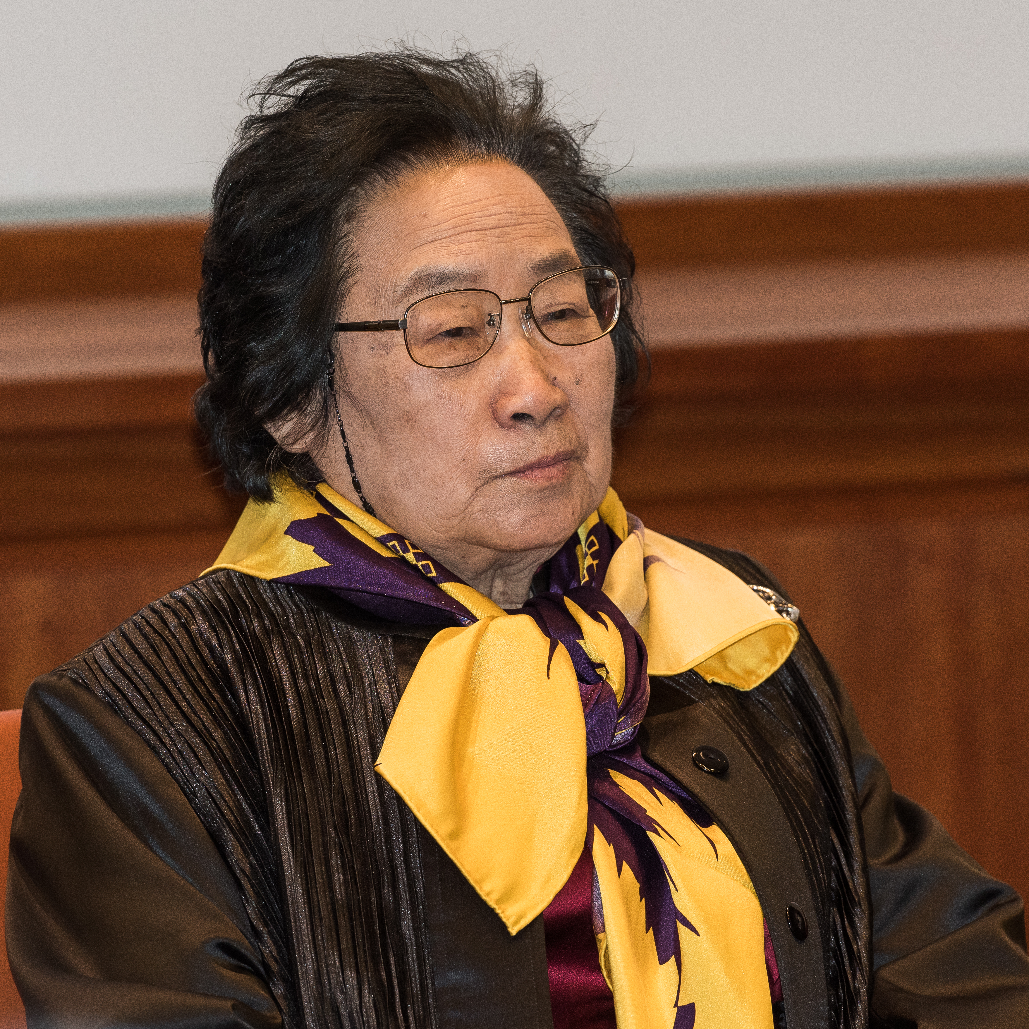 Tu Youyou, Nobel Laureate in medicine in Stockholm December 2015